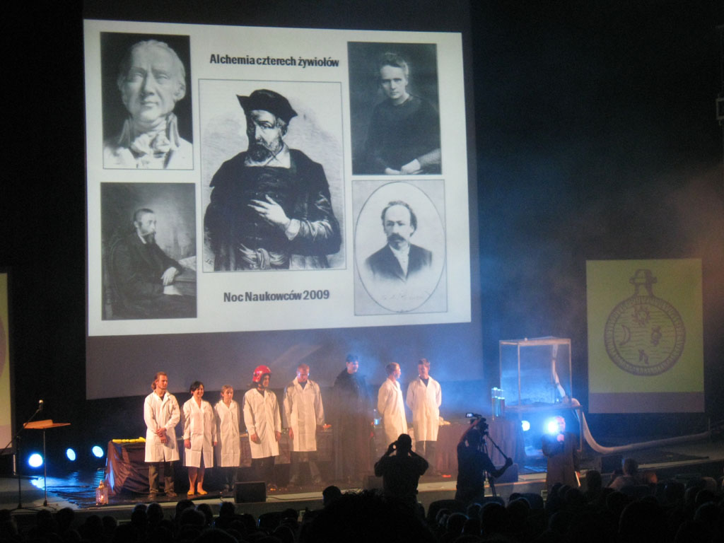 European Reasearchers Night in Kraków, Poland